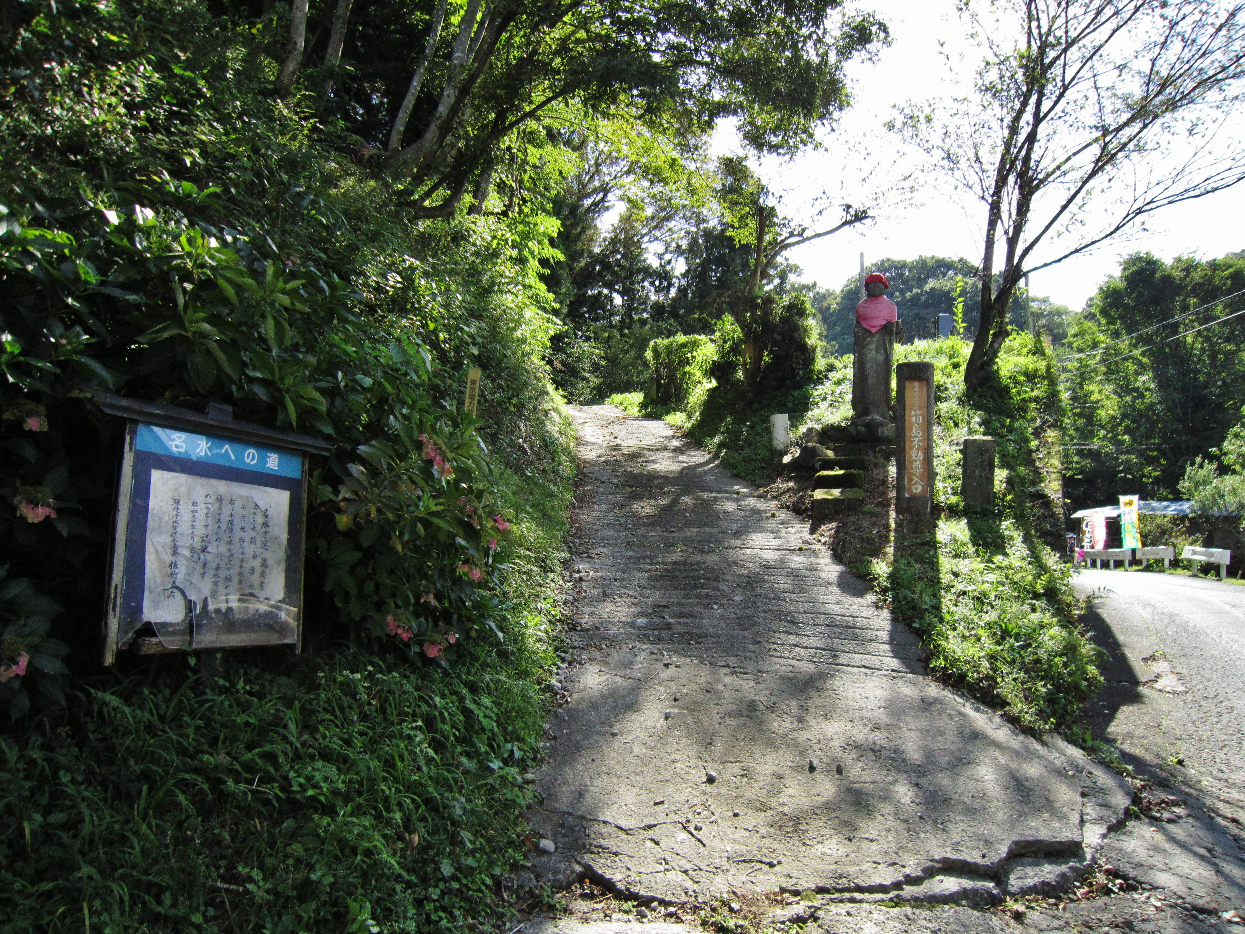 Hakoshima Yusui path.